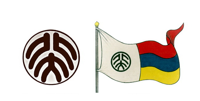 Seal and Flag, Peking University